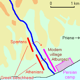 Map of the battle of Mycale. Fleeing Persians were able to follow the river to the mountain range.